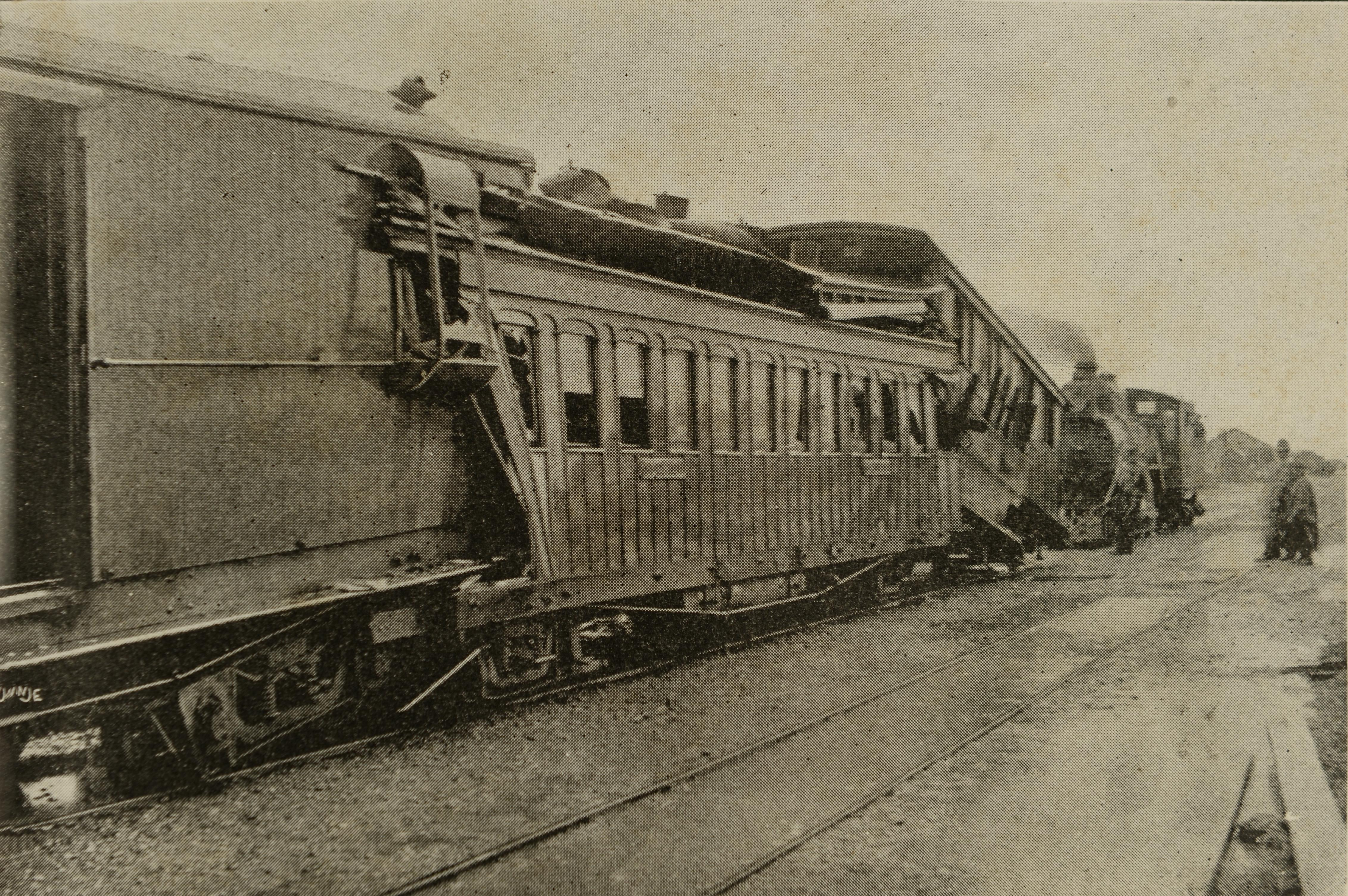 Damaged carriages and guards van in the 1893 Rakaia railway accident